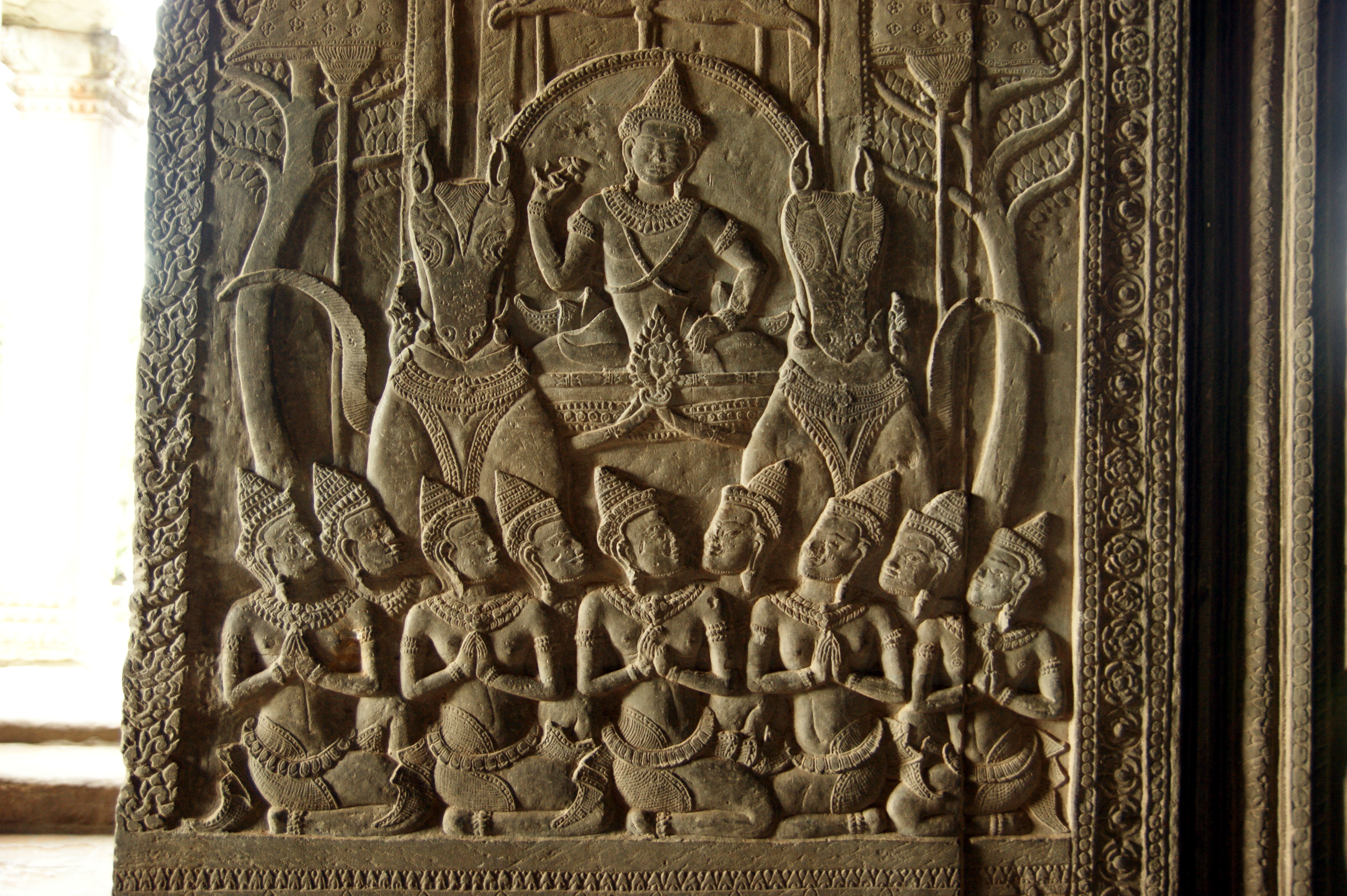 An exquisite relief from the ruins of the famous temple of Angkor Wat in Siem Reap, Cambodia. Angkor has been designated a world heritage site by UNESCO.